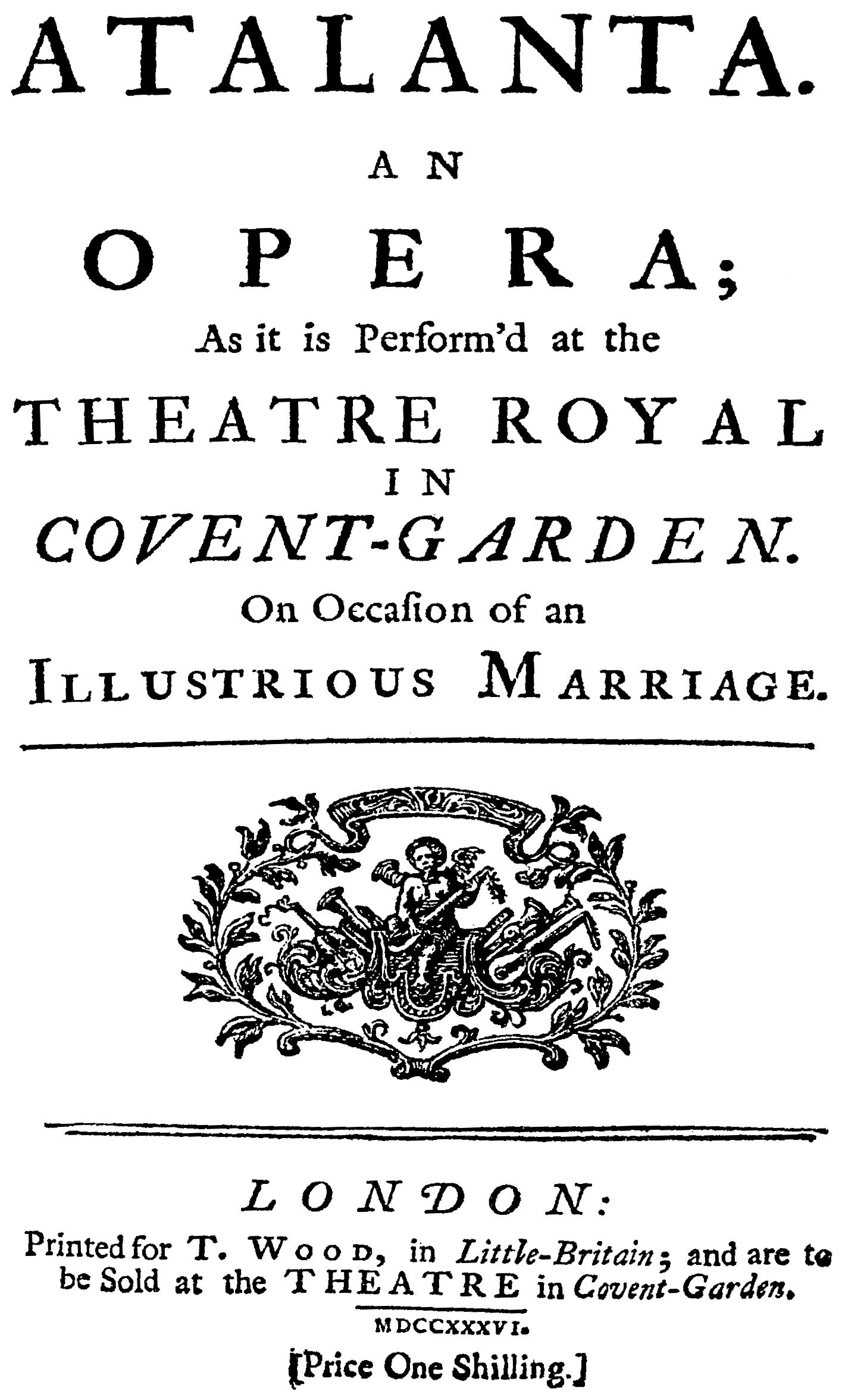 Georg Friedrich Händel - Atalanta - title page of the libretto - London 1736